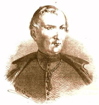 Print of Francesc Rovira i Sala or Francisco Rovira y Sala (1764-1820) who was a priest and leader of the Catalan guerilla fighters against the French from 1808 to 1814. From the style of the print, it is believed to date from the subject's lifetime or no later than the 1800s.